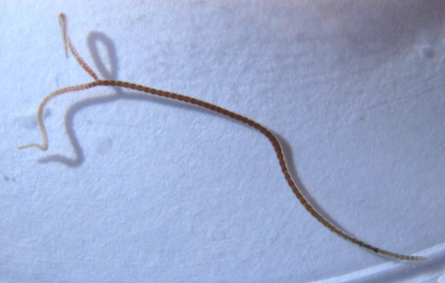 Lumbriculus variegatus. This specimen has two tails, possibly because an injury to the tail caused it to grow a replacement.